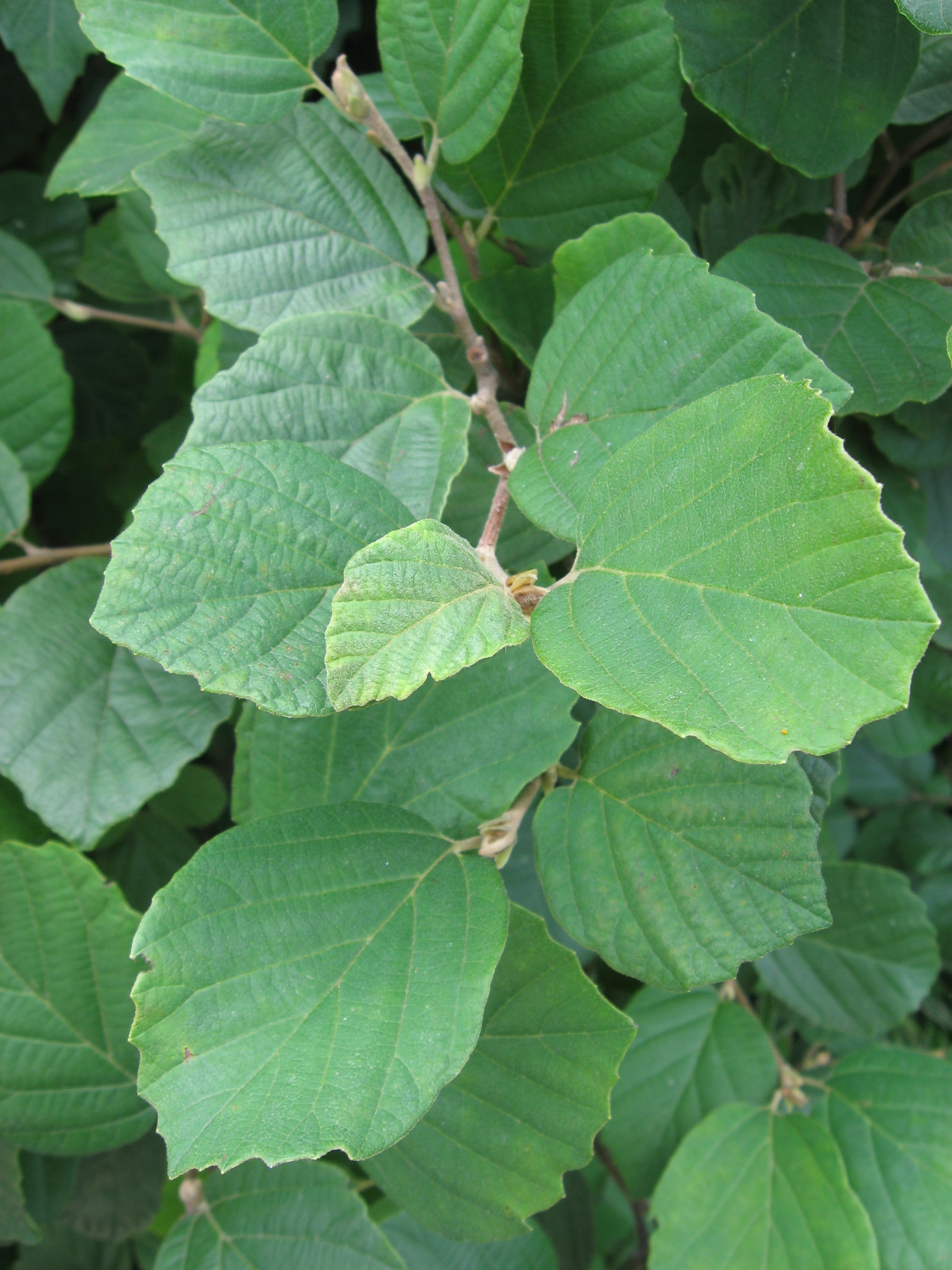 A picture of the leaves of Fothergilla gardenii.